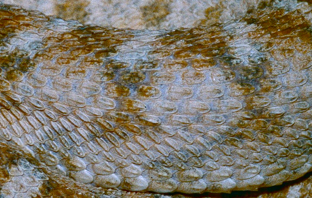 Zoo, Barcelona, Catalonia, SPAIN Scanned Slide from 1996